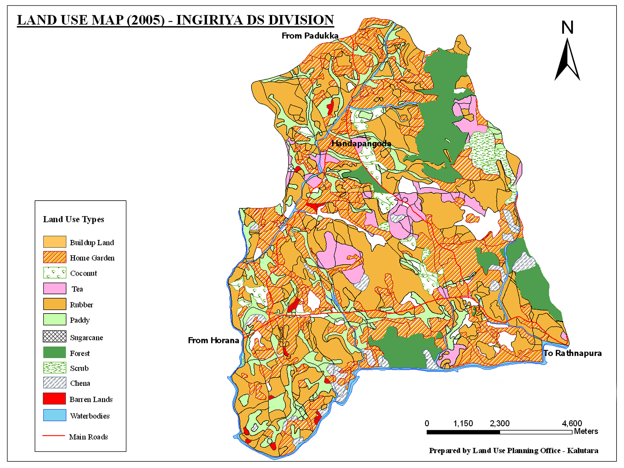 Ingiriya City Land Use Map